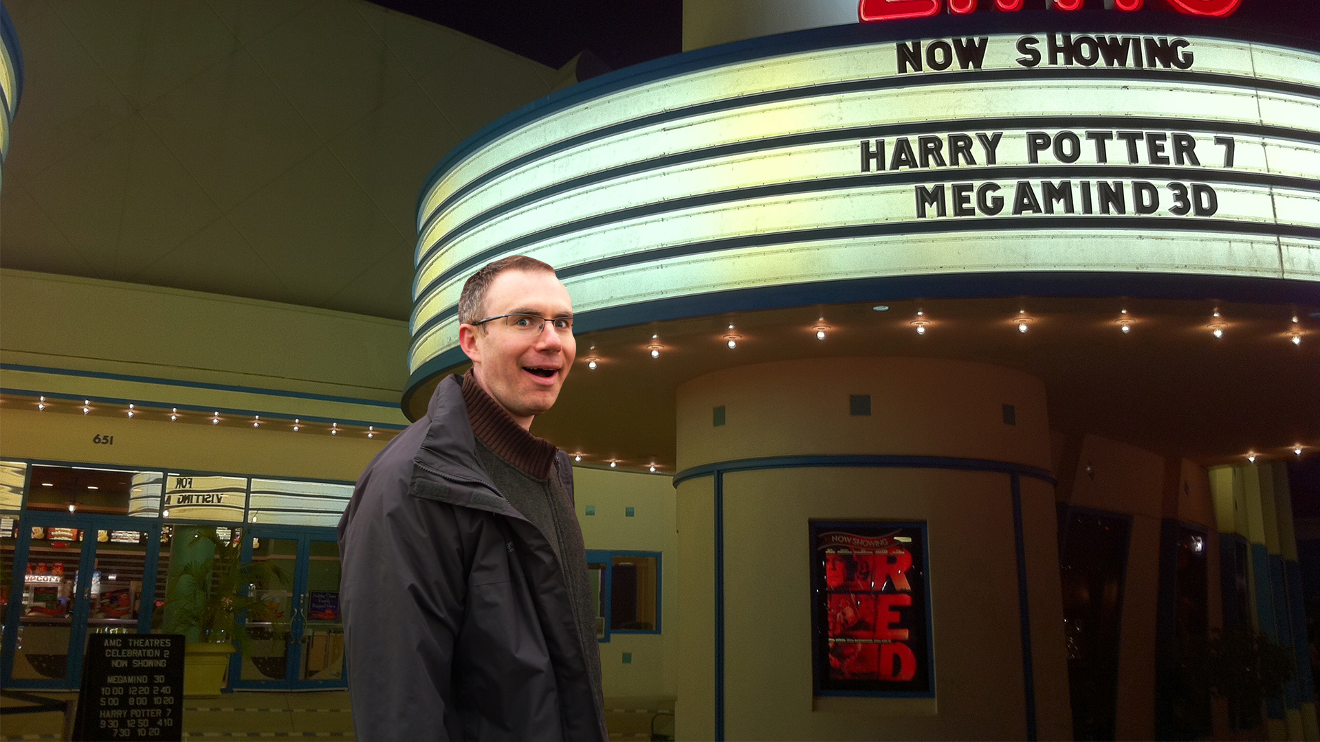 Labeled under Creative Commons - Labeled under Creative Commons